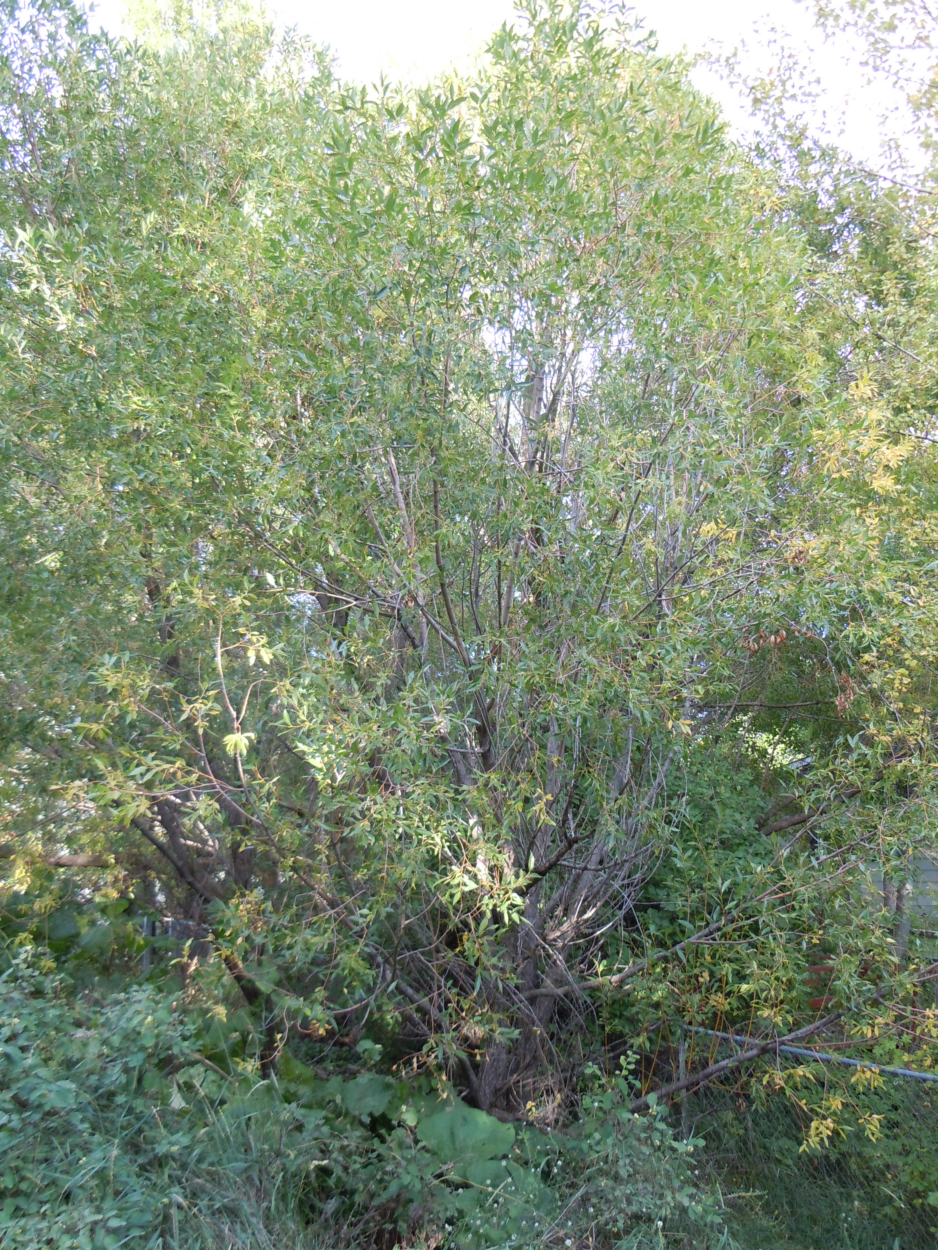 Salix lasiandra is one of the taller and more tree-like willows in western Montana when it can grow unimpeded by browsing.